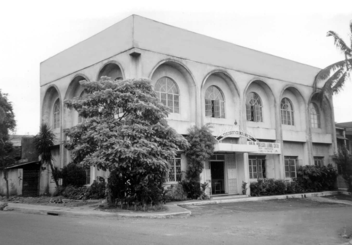 The national headquarters building of the Theosophical Society in the Philippines